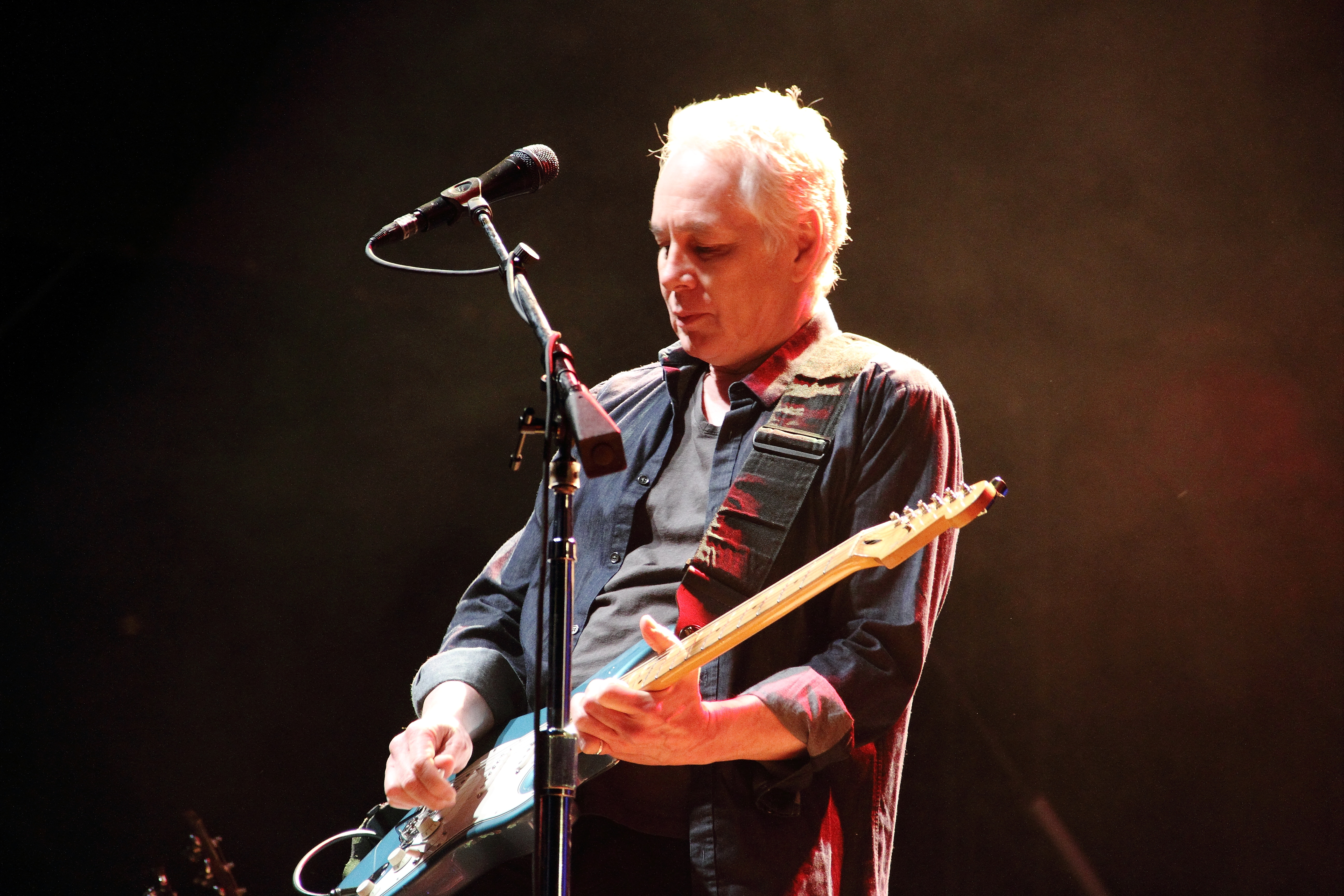 Graham Nash with Shayne Fontayne and Todd Caldwell at Rudolstadt-Festival 2018.